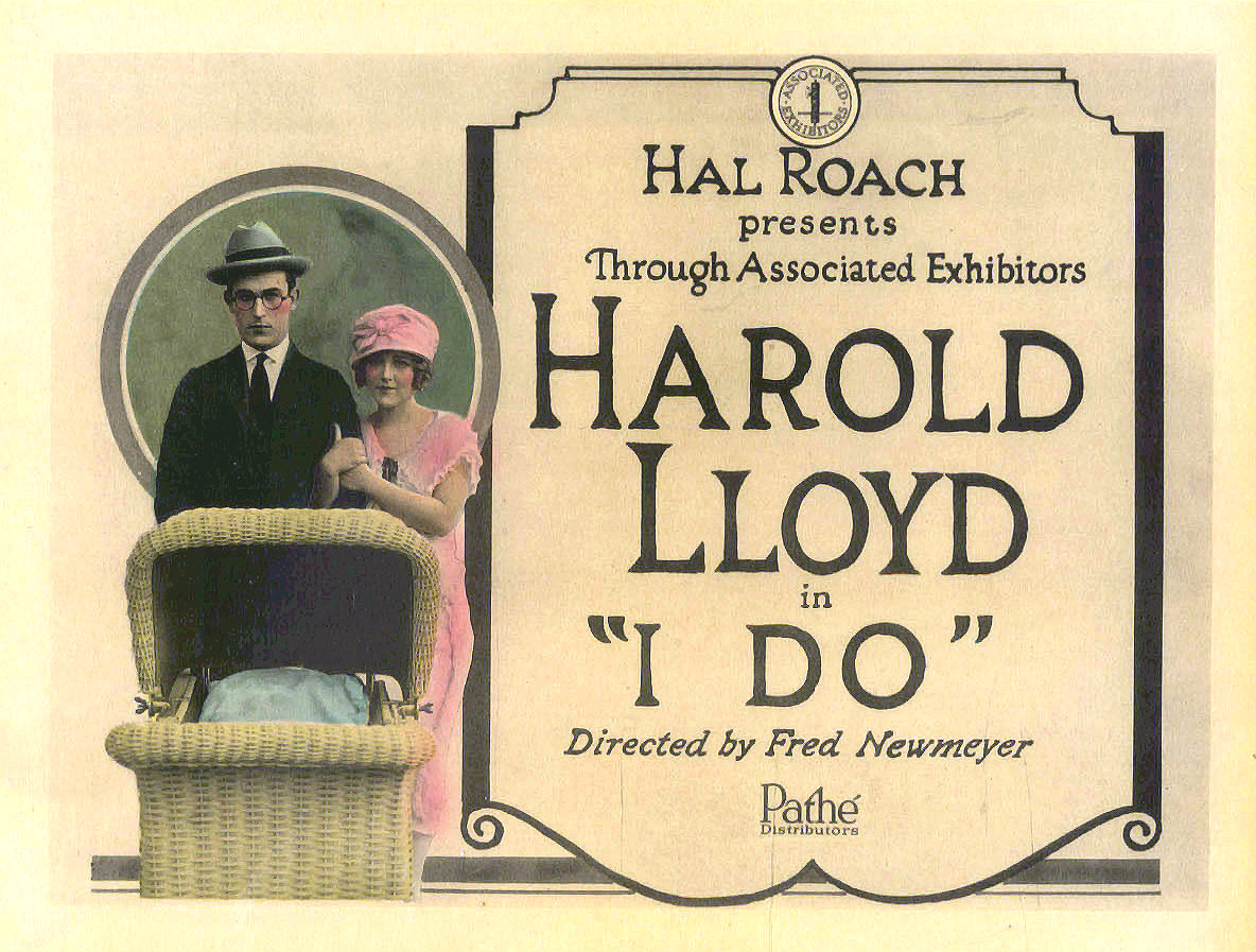 Lobby card for the American film I Do (1921) with Mildred Davis and Harold Lloyd.